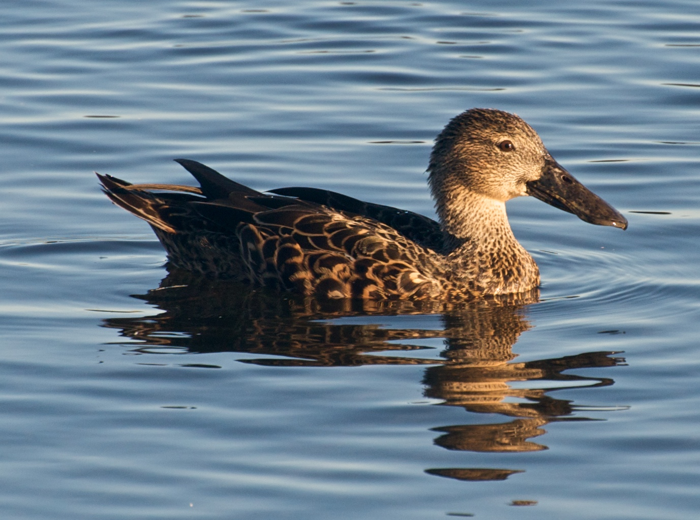 Australasian Shoveler adult, seen at Lake Monger.